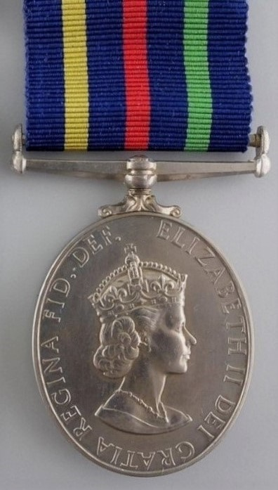 Obverse of the British Civil Defence Long Service Medal